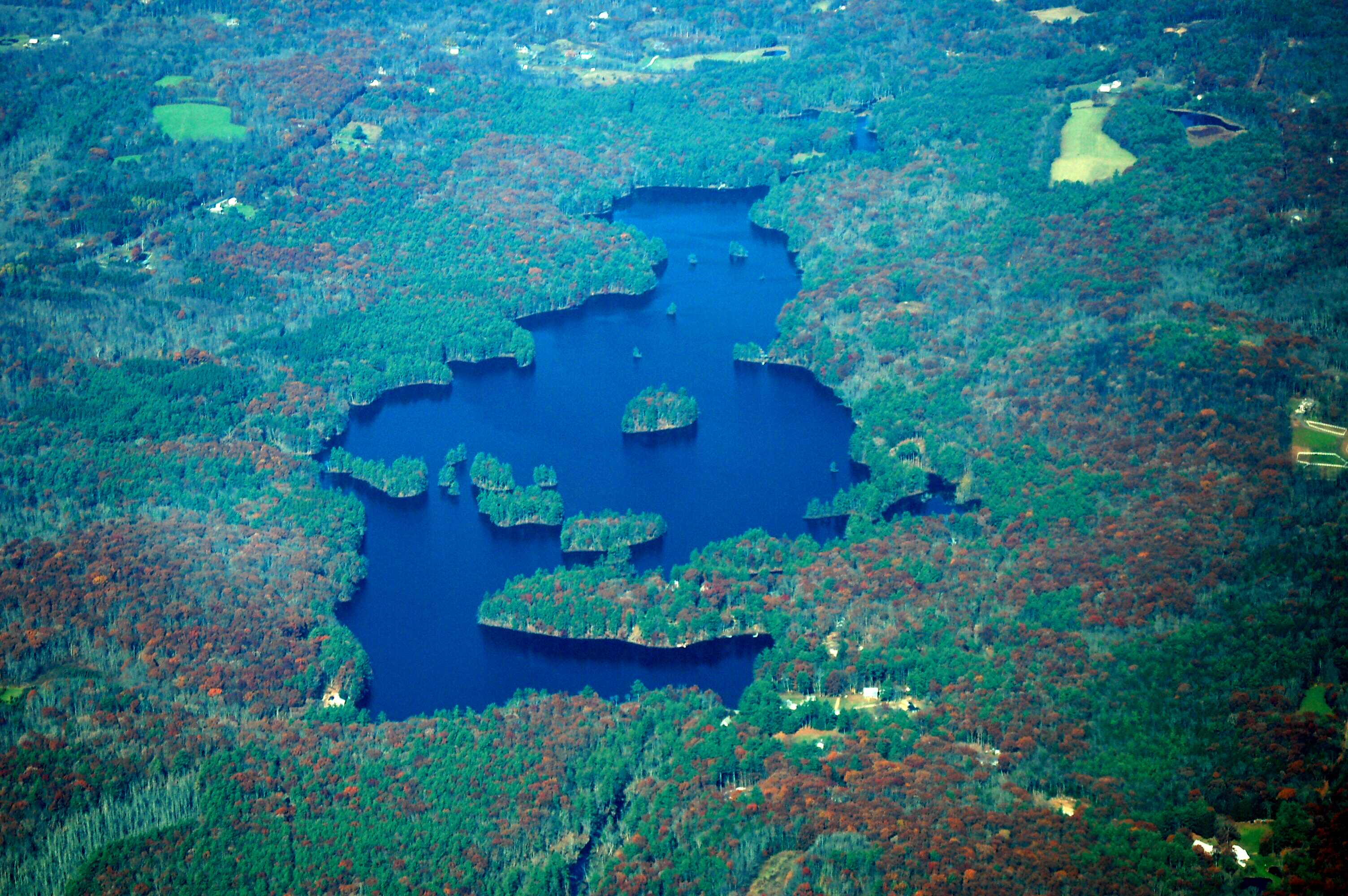 Brooks Pond in Spencer, N. Brookfield, New Braintree and Oakham Massachusetts, from the air. Photographed by the Author, Richard B. Johnson, from his Grumman Cheetah.